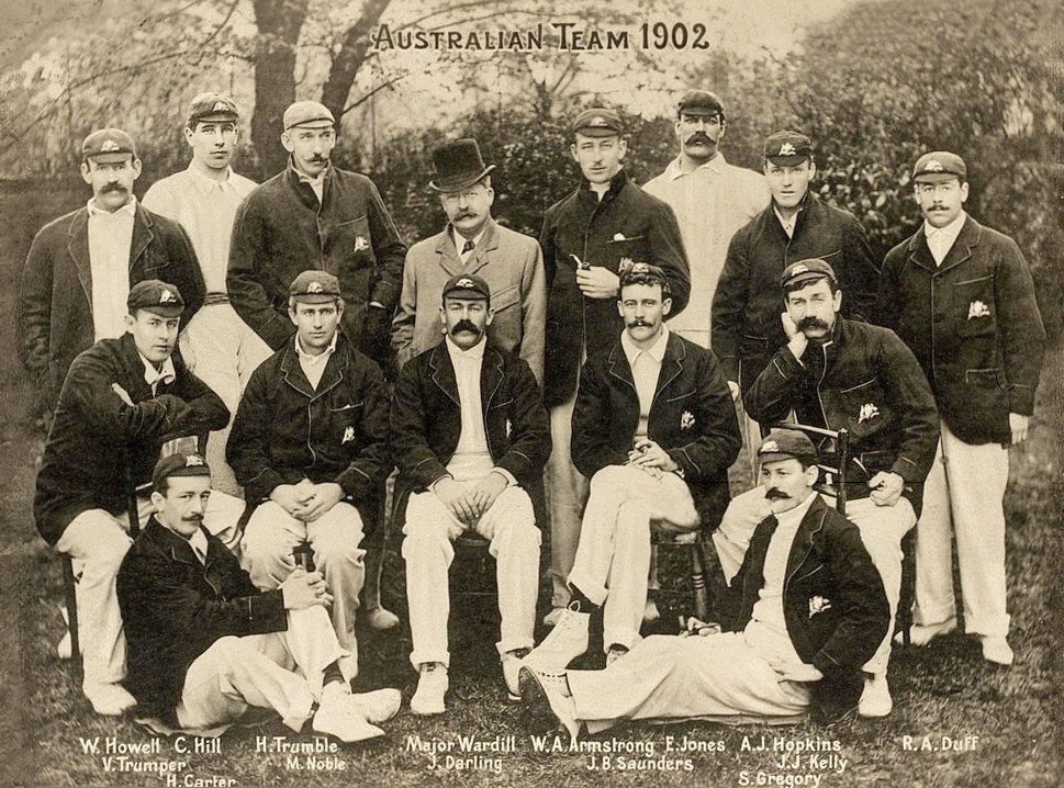 Picture of the Australian cricket team that toured England in 1902. The image is pre-1955 and therefore is in the public domain. Pictured (l to r) - Back row: Howell, Hill, Trumble, Wardill (manager), Armstrong, Jones, Hopkins, Duff; Seated: Trumper, Noble, Darling (captain), Saunders, Kelly; Front: Carter, Gregory. This image is of Australian origin and is now in the public domain because its term of copyright has expired. According to the Australian Copyright Council (ACC), ACC Information Sheet G023v17 (Duration of copyright) (August 2014).3 Type of materialCopyright has expired if … A Photographs or other works published anonymously, under a pseudonym or the creator is unknown:taken or published prior to 1 January 1955BPhotographs (except A):taken prior to 1 January 1955CArtistic works (except A & B):the creator died before 1 January 1955DPublished editions1 (except A & B):first published more than 25 years agoECommonwealth, State or Territory owned2 photographs and engravings:taken or published more than 50 years ago 1 means the typographical arrangement and layout of a published work. eg. newsprint. 2 owned means where a government is the copyright owner as well as would have owned copyright but reached some other agreement with the creator. 3 Copyright Amendment (Disability Access and Other Measures) Bill 2017 (Australian Government) When using this template, please provide information of where the image was first published and who created it.